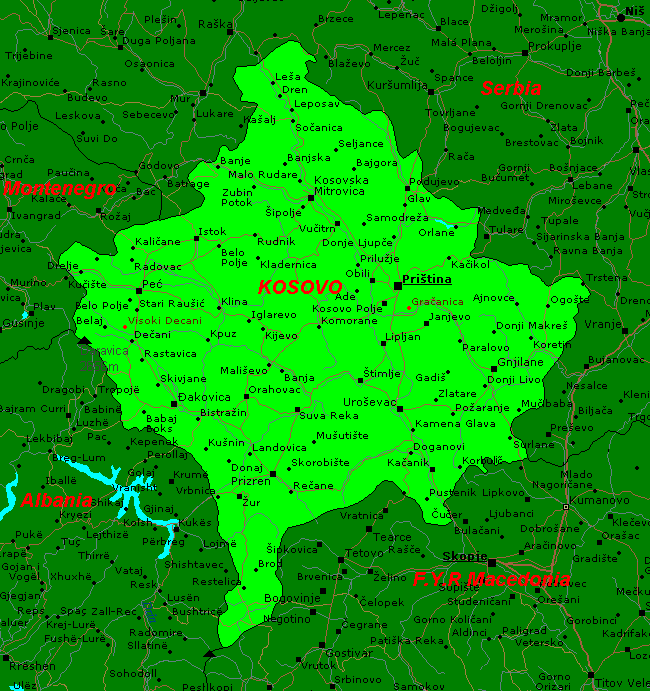 A 2008 detailed map of Kosovo